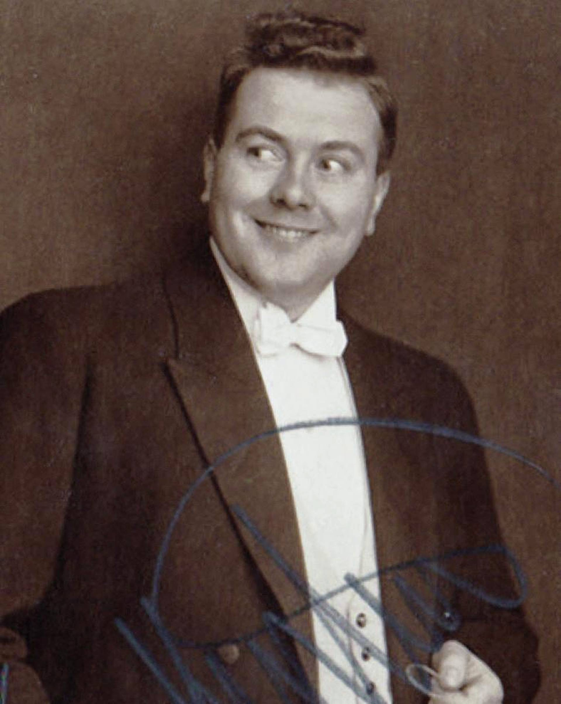 Photograph of the Finnish masseur Felix Kersten. (Possibly a passport photograph.)